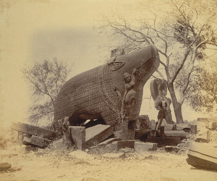 From the source, Photograph of the statue of Varaha, standing amongst the ruins of the Varaha Temple at Eran, taken by Henry Cousens in c.1892-94. The town of Eran has been occupied from the second century BC onwards. It is located in a naturally defensible position, in a bend in the Bina river. Eran was an important site during the Gupta period and the pieces shown in this photograph were sculpted at that time. In the background there is a statue of Vishnu. This colossal boar statue (some 11 feet high and 13 feet long ) dates to the 5th century. It is completely covered with minature carved figures. It represents Vishnu in his boar incarnation lifting the earth, represented as the goddess Bhu, on one of his tusks. The demon Hiranyaksha had pushed the earth under the waters and Vishnu saved it from being submerged.